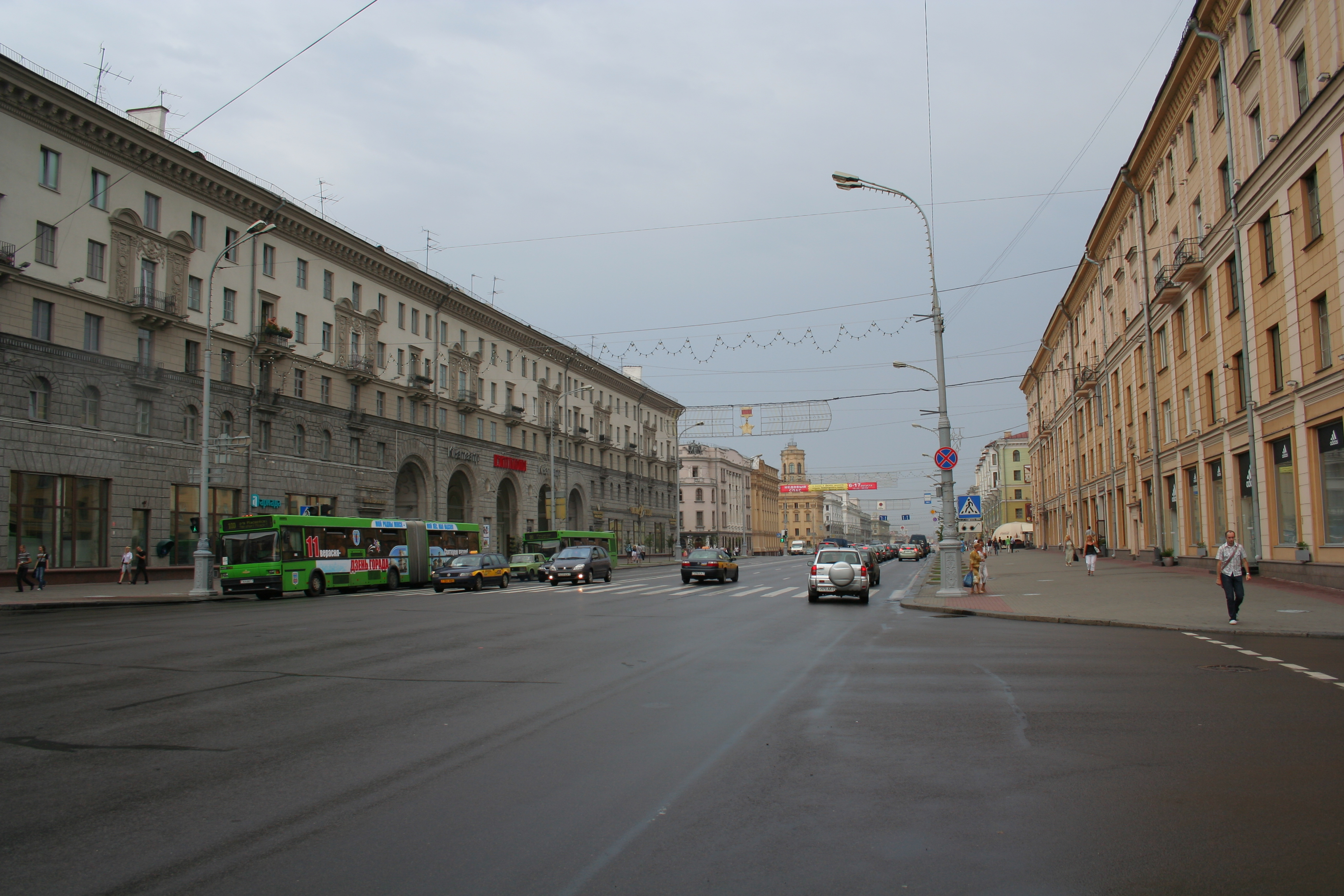 Views of Minsk (Belarus). Independence avenue.